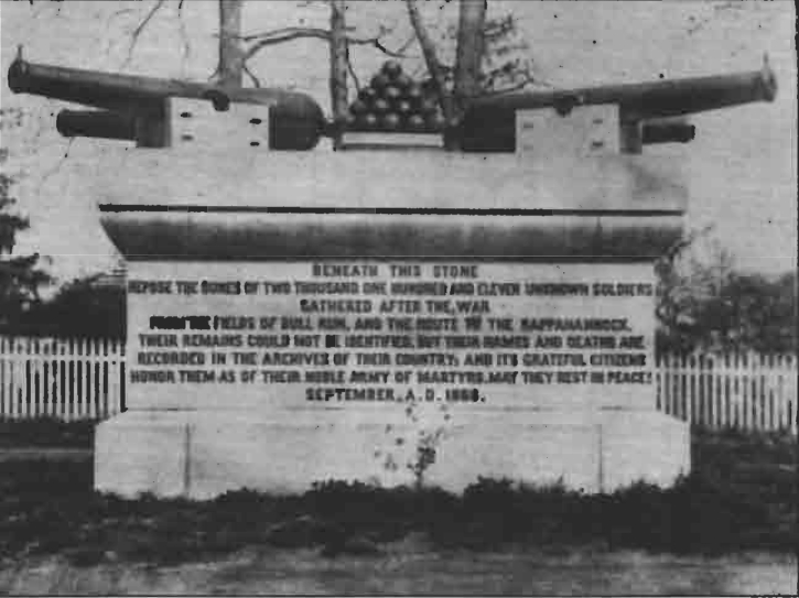 Photograph of the Civil War Unknowns Monument on the grounds of Arlington House (the Robert E. Lee National Memorial) at Arlington National Cemetery in Arlington County, Virginia, in the United States. This photograph is undated, but the U.S. National Park Service estimates the date of the image from 1866, the year the monument was created.